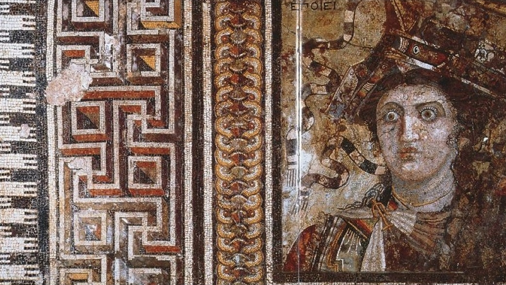 Mosaic from Thmuis, Egypt, created by the Hellenistic artist Sophilos (signature) about 200 BC, now in the Greco-Roman Museum in Alexandria, Egypt. The woman depicts the Ptolemaic Queen Berenike II (who ruled jointly with her husband Ptolemy III) as the personification of Alexandria. Dr. Joann Fletcher (Cleopatra the Great: The Woman Behind the Legend, New York: Harper, 2008, ISBN 978-0-06-058558-7, plates between pp. 246-247) writes that Queen Berenike II's headdress shows a ship's prow, while she sports an anchor-shaped brooch for her robes, symbols of her kingdom's naval prowess and successes in the Mediterranean Sea.